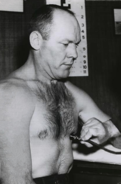 1961 Press Photo Boxer Pete Rademacher undergoing exam from A.W. Stevens